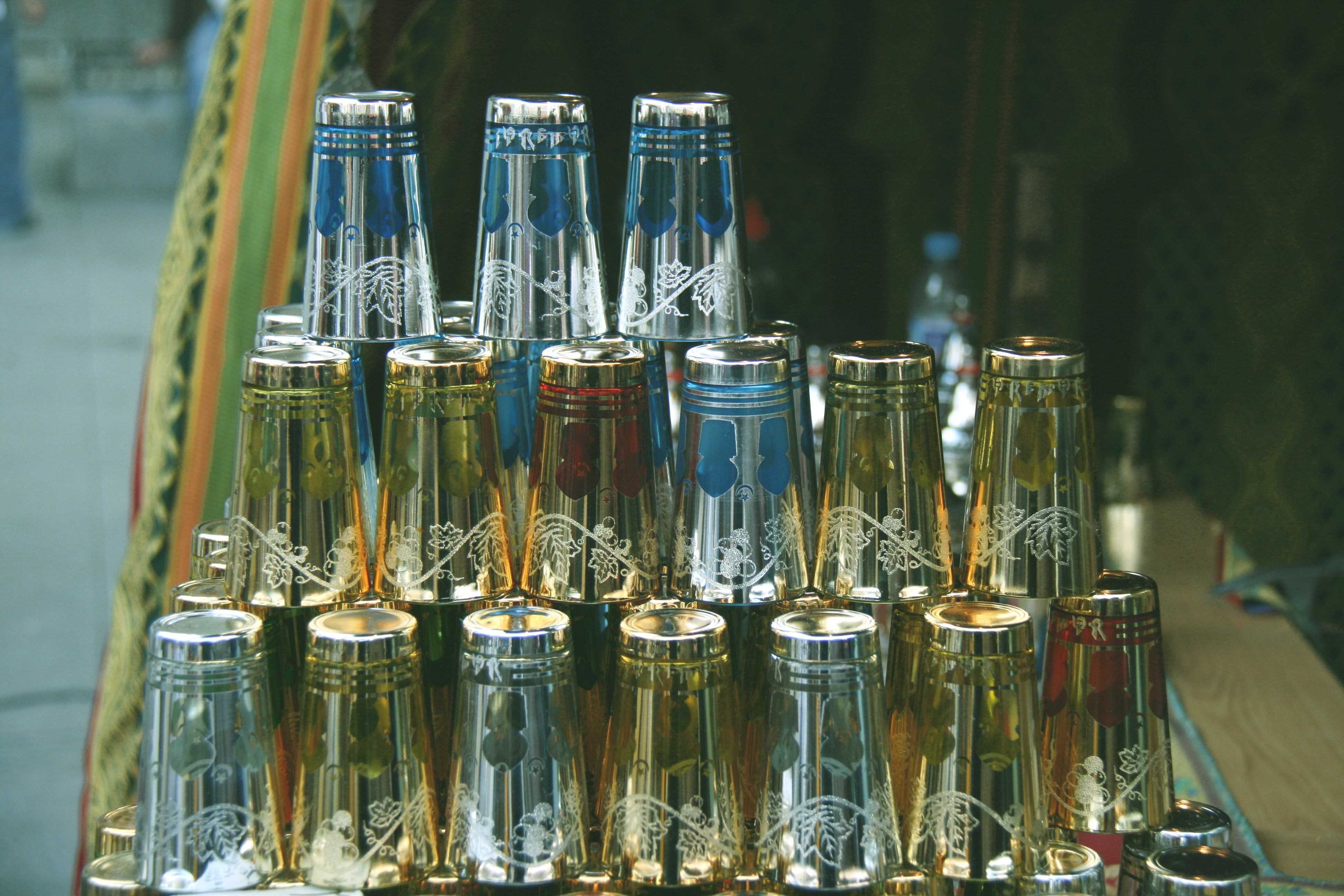 Moroccan tea glasses